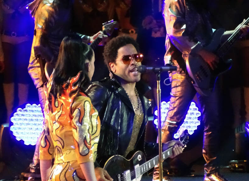 Katy Perry and Lenny Kravitz performing "I Kissed a Girl" at halftime of Super Bowl XLIX at University of Phoenix Stadium in Glendale, Ariz., on Feb. 1, 2015.